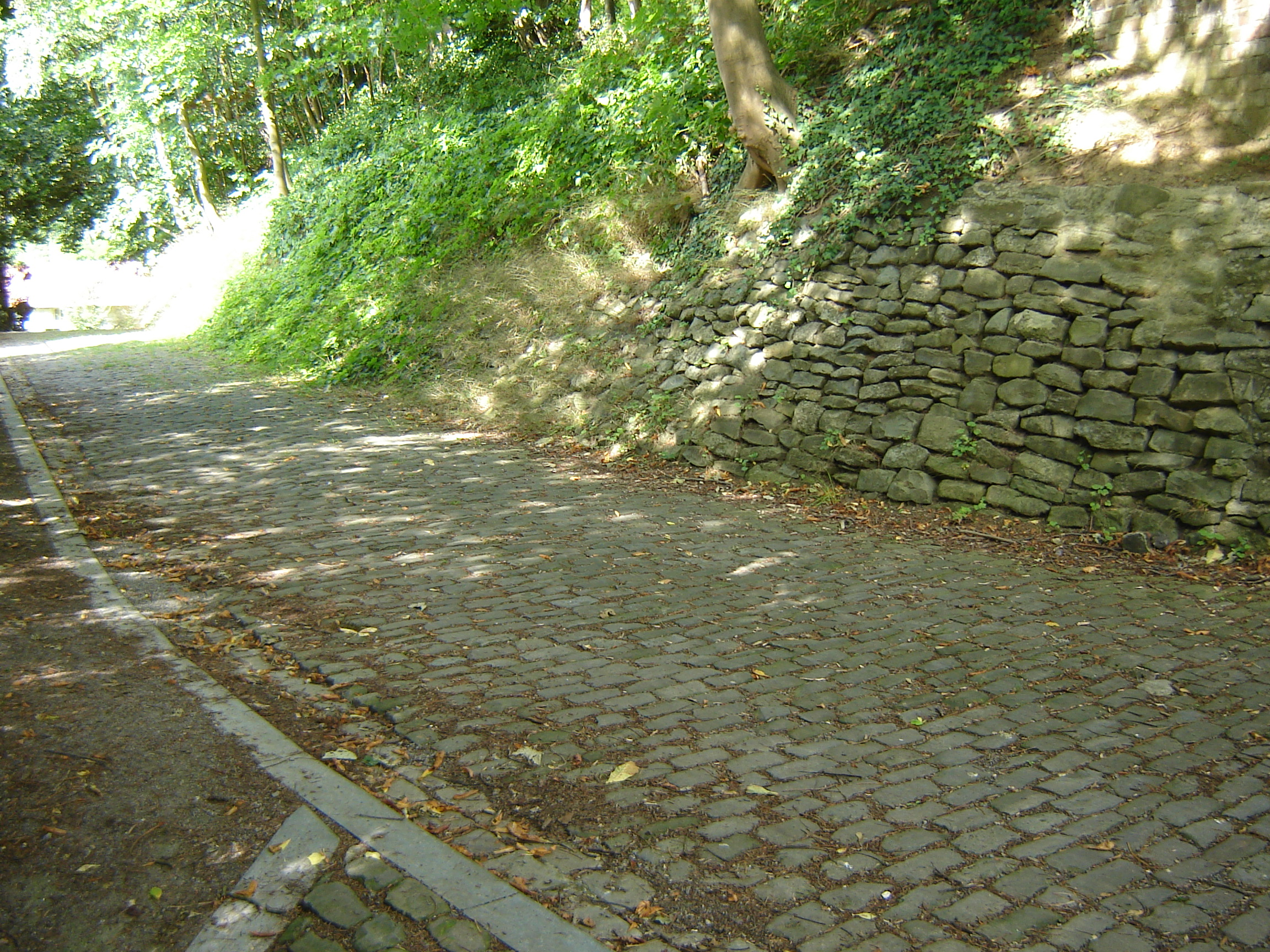 "Muur van Geraardsbergen" (literally Wall of Geraardsbergen). Climb known from cycling classics. Geraardsbergen, East Flanders, Belgium.